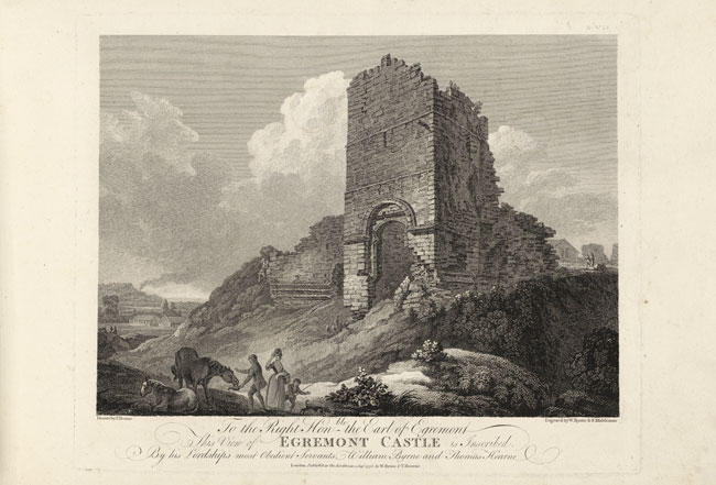 EGREMONT CASTLE